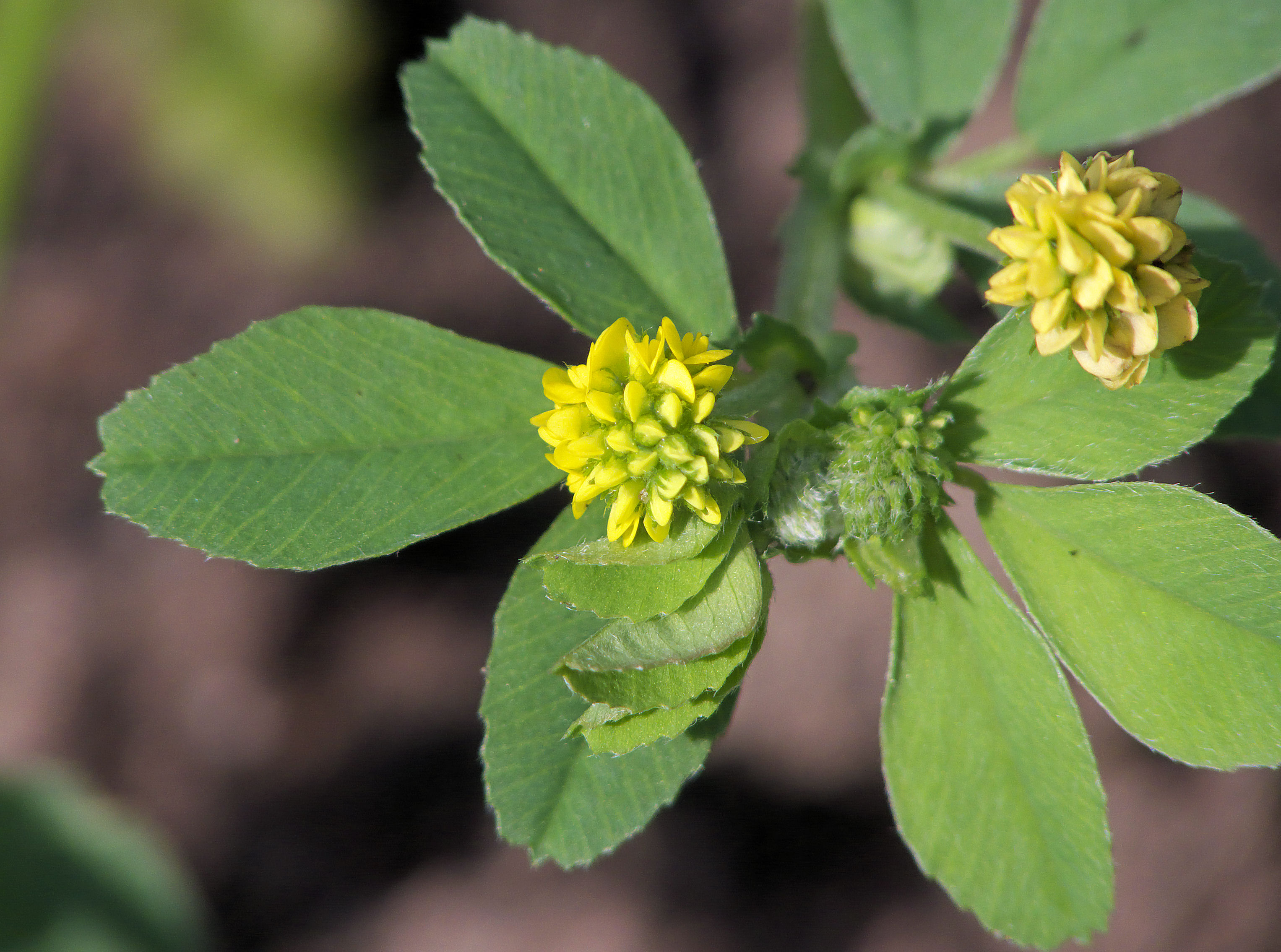 Medicago lupulina inflorescence